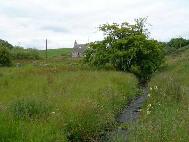 Soggy banks of Cowton Burn The photographer is standing on the very soft deep grass banks of Cowton Burn looking upstream toward the old mill and locus of the minor bridge crossing.